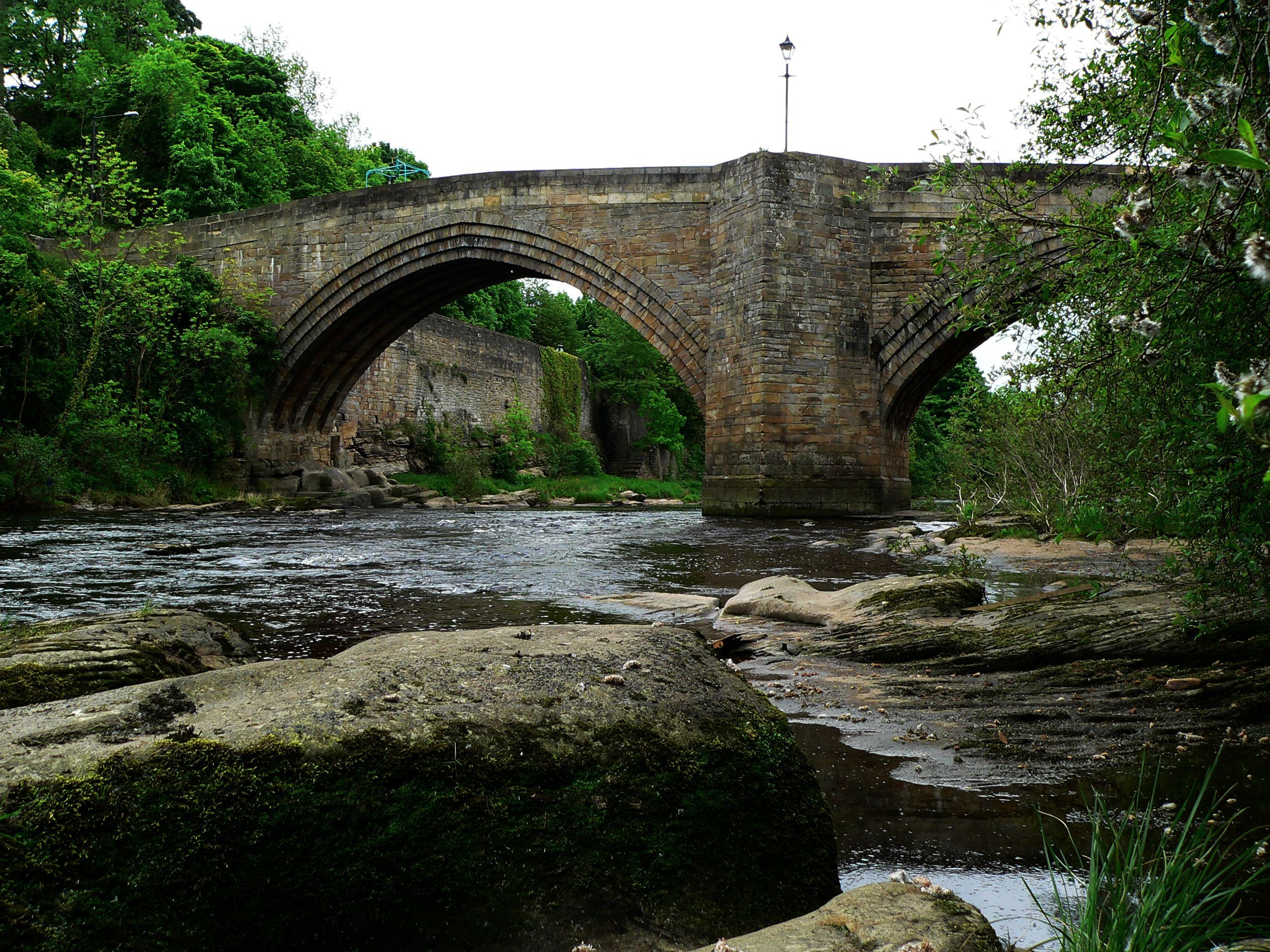 Bridge at Barnard Castle - by Francis Hannaway